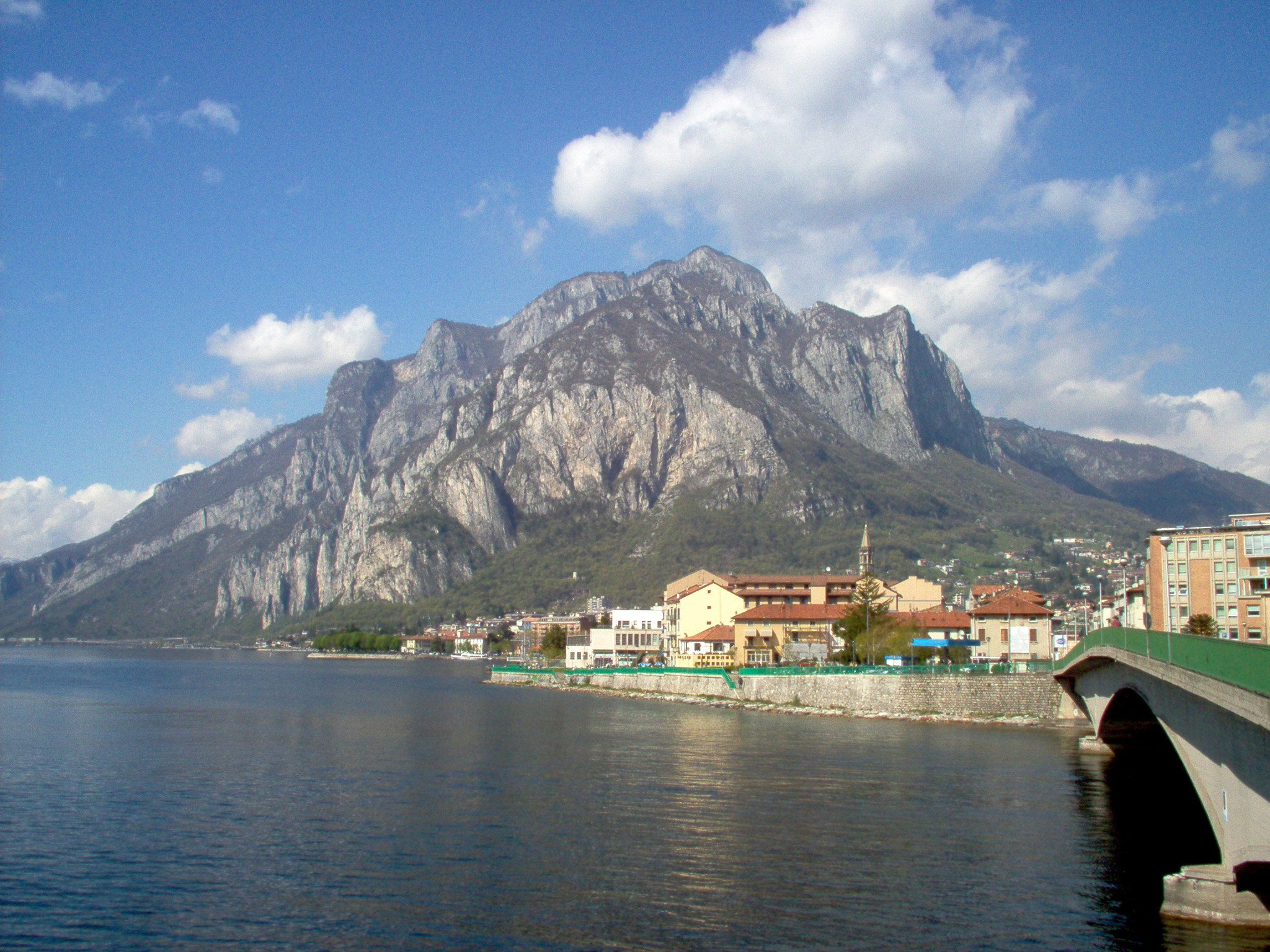 Photo taken by myself (User:GôTô) on April 16th 2006 at Lecco, Italy.